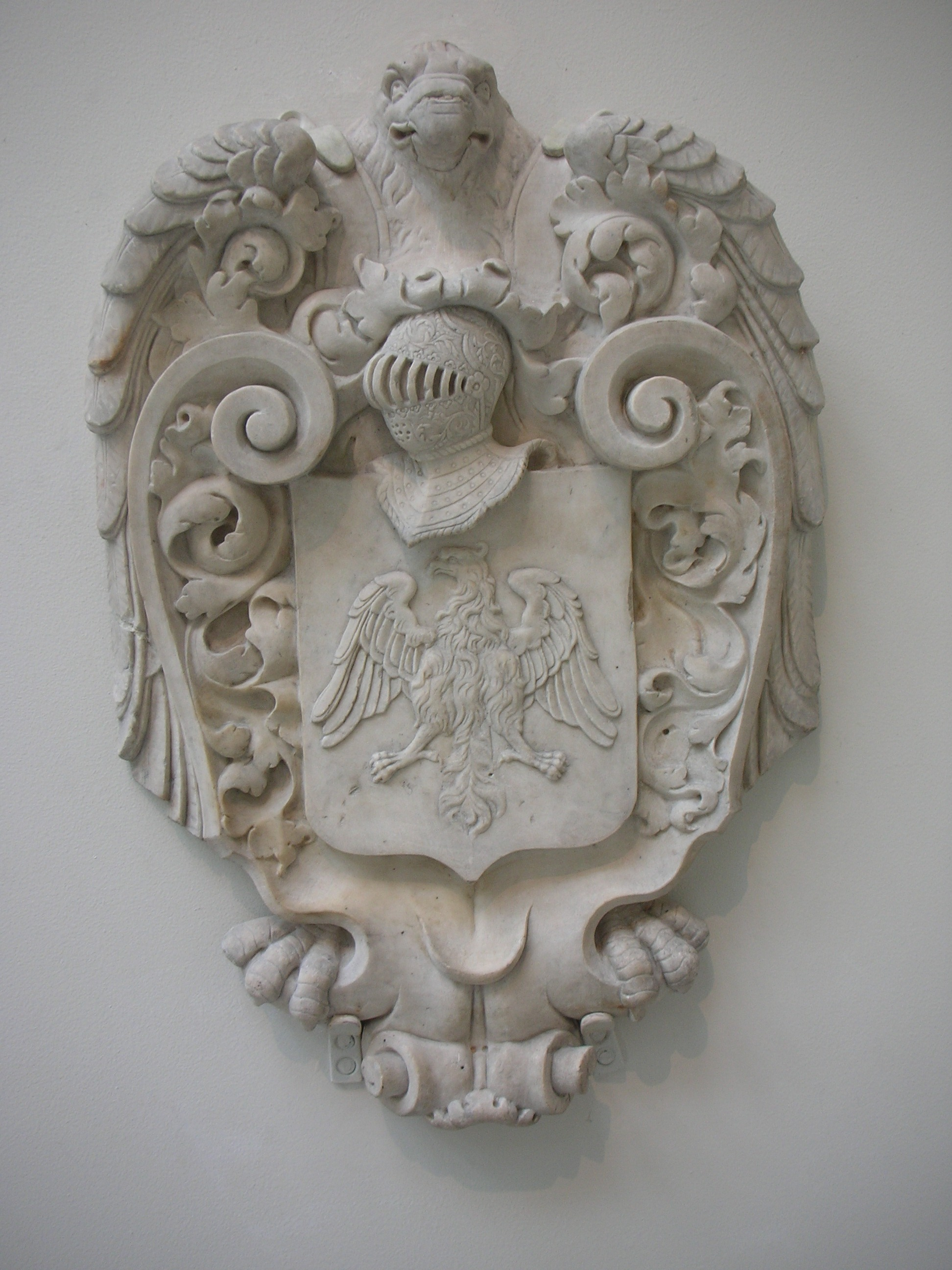 Stemma (Italian: Coat-of-arms) of the Alidosi family, taken from Palazzo Alidosi at Cesena, Italy (demolished between 1838 and 1846). The Alidosi family was powerful and extensive and can be traced back to the 10th century. Construction of the Palazzo Alidosi was begun in 1508 by Obizzo Alidosi, the brother of Francesco Adiosi, a favourite of Pope Julius II. The Pope appointed him Papal Governor of Cesena and granted permission for the palace in 1508. Istrian stone, Medieval and Renaissance Gallery, Victoria & Albert Museum, London. Museum number: 7675-1861 [1].